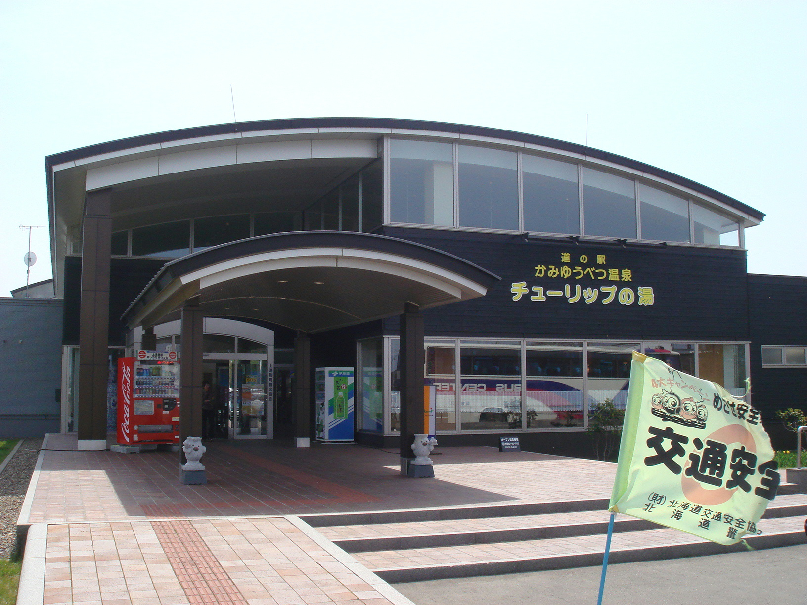 Michinoeki (Roadside Station) Kamiyubetsu Onsen Tulip no Yu in Yubetsu Town, Hokkaido, Japan